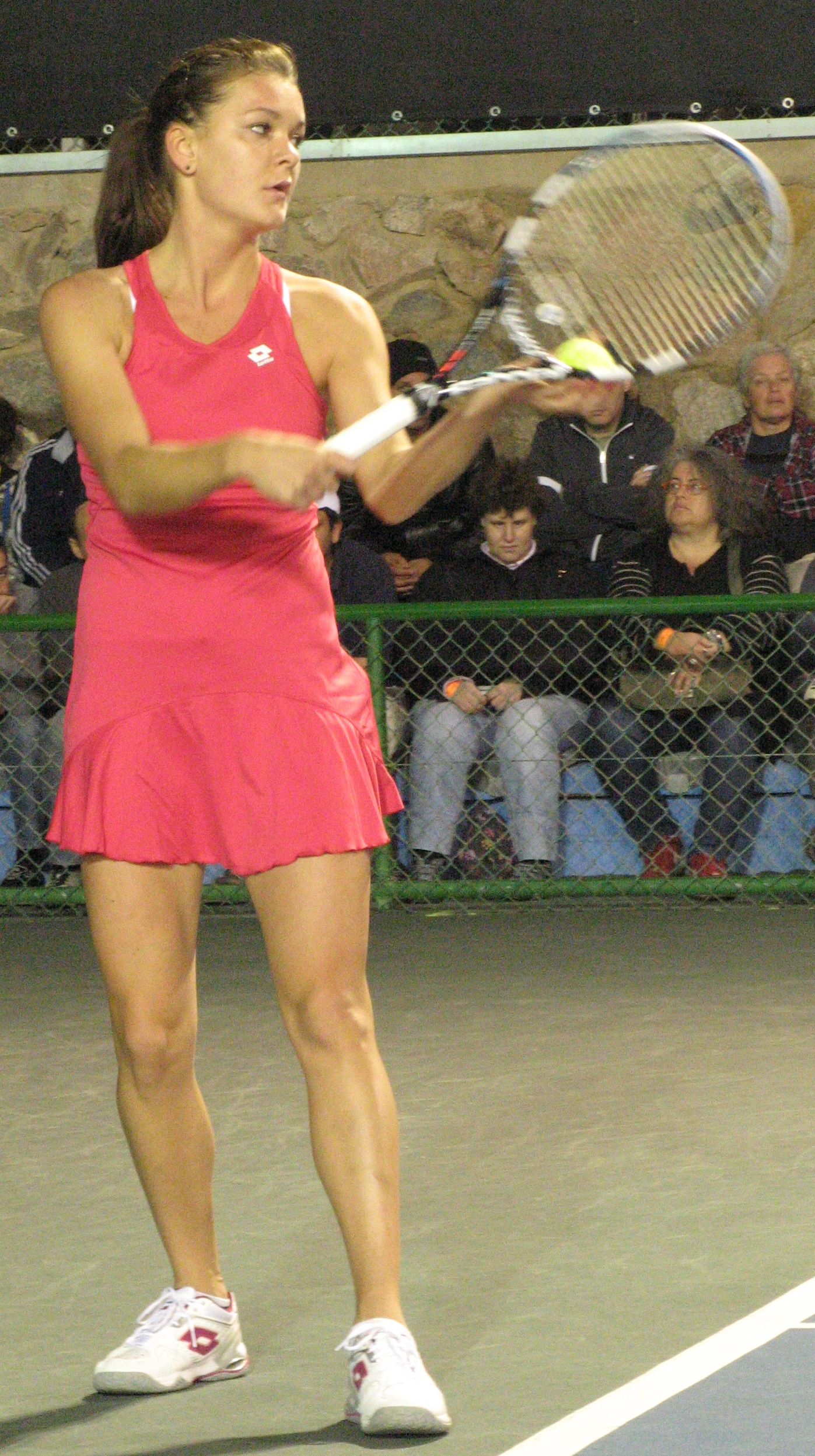 The tennis player Agnieszka Radwańska of Poland during her match against Çağla Büyükakçay of Turkey on the second day of Fed Cup Group I 2013 Europe/ Africa in Eilat, Israel.